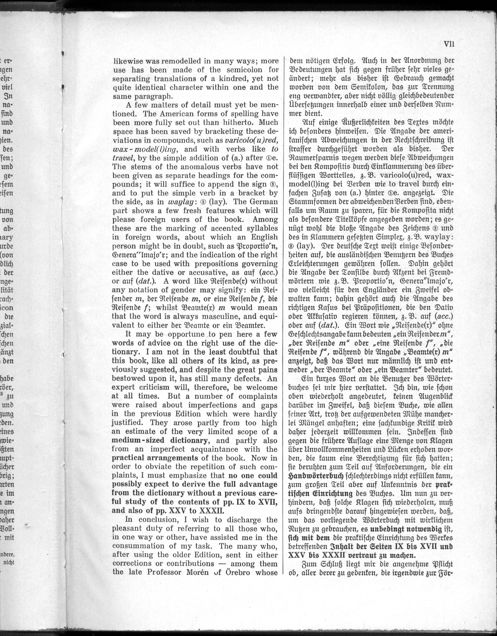 Page VII Dictionary Muret-Sanders, Edition 1910 as a witness of its time "whilst Beamte(r) m would mean that the Word is always masculine"